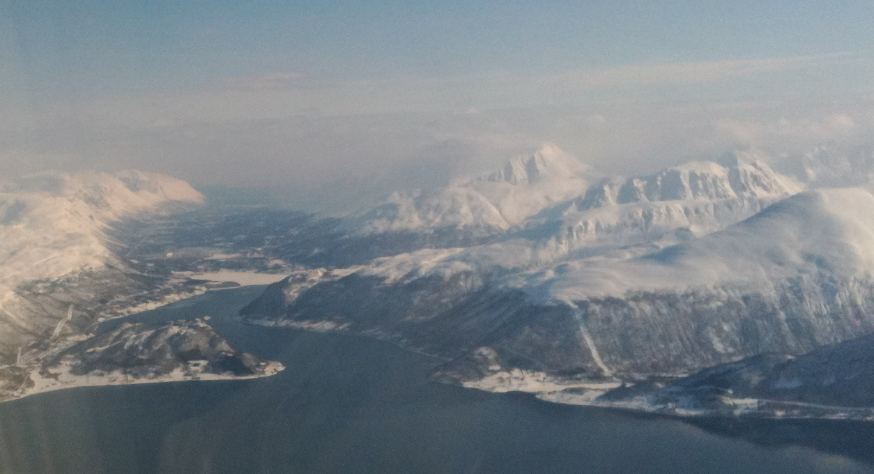 Ramfjorden a fjord in Tromsø, Norway. Seen from a plane bound for Tromsø Airport.